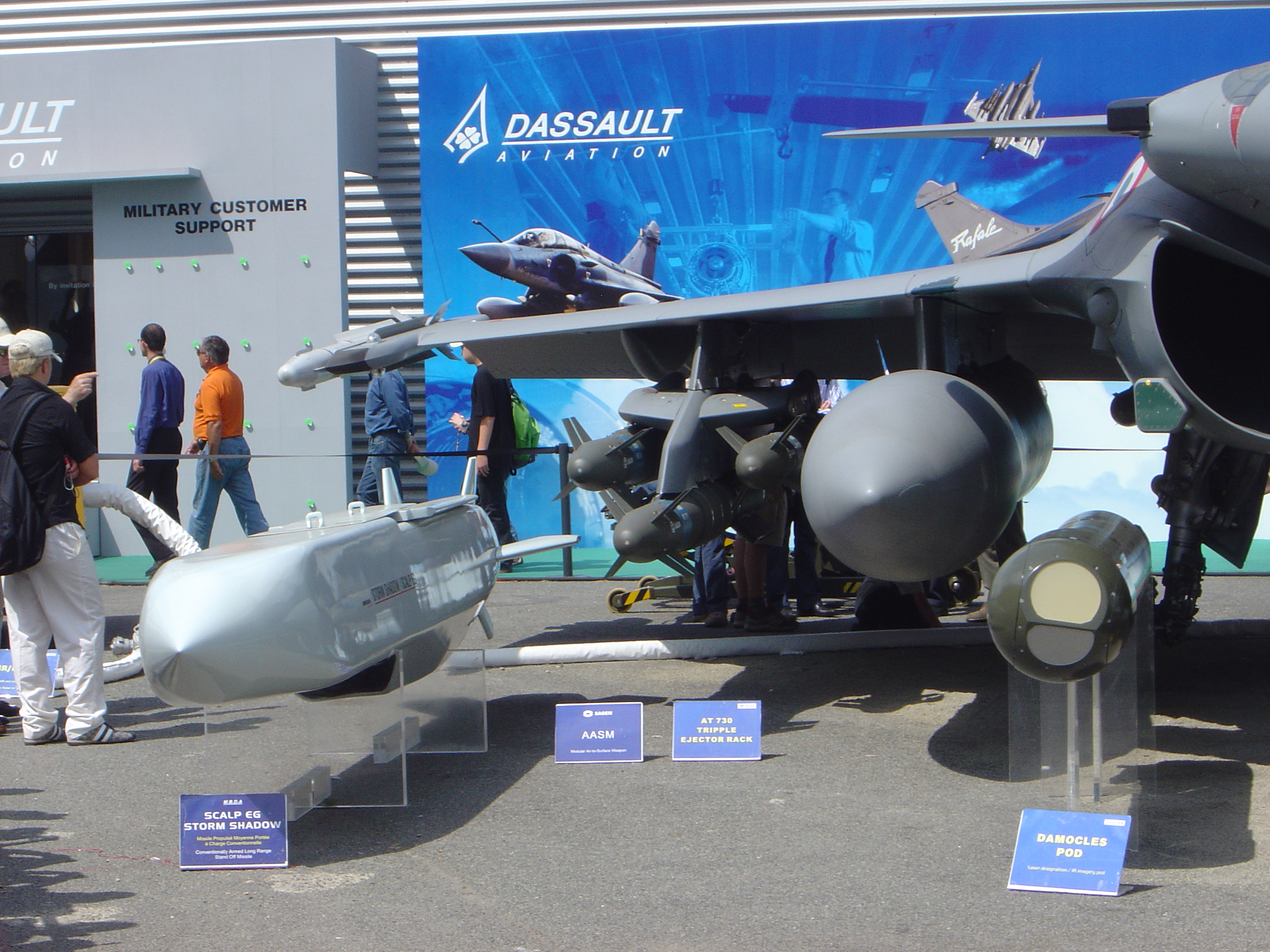 Dassault Rafale weaponry Paris Air Show, 2005